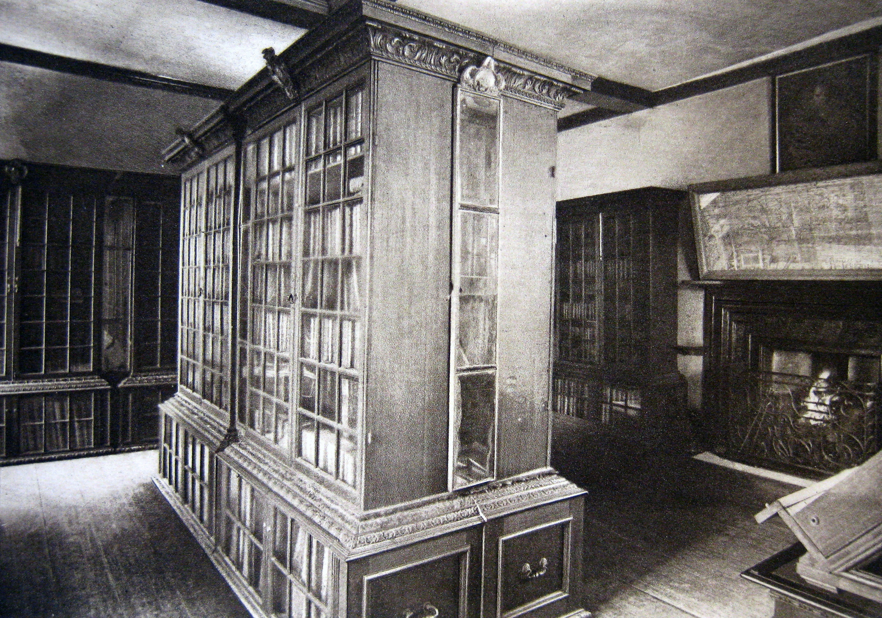 Image is from H. B. Wheatley, ed, The Diary of Samuel Pepys: Pepysiana (London, 1899). Book editor died in 1917.